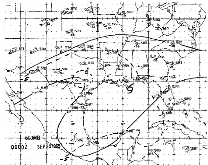 Surface weather analysis of Tropical Storm Debbie over the northern United States